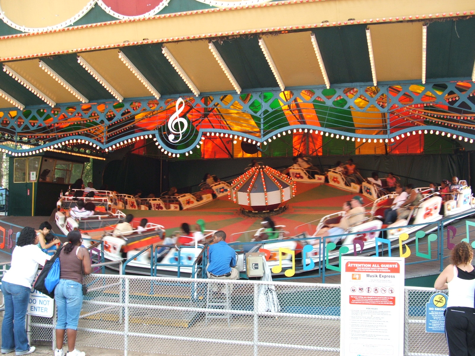 Photograph of Musik Express, a Music Express type standing ride currently in operation at Six Flags Great Adventure.